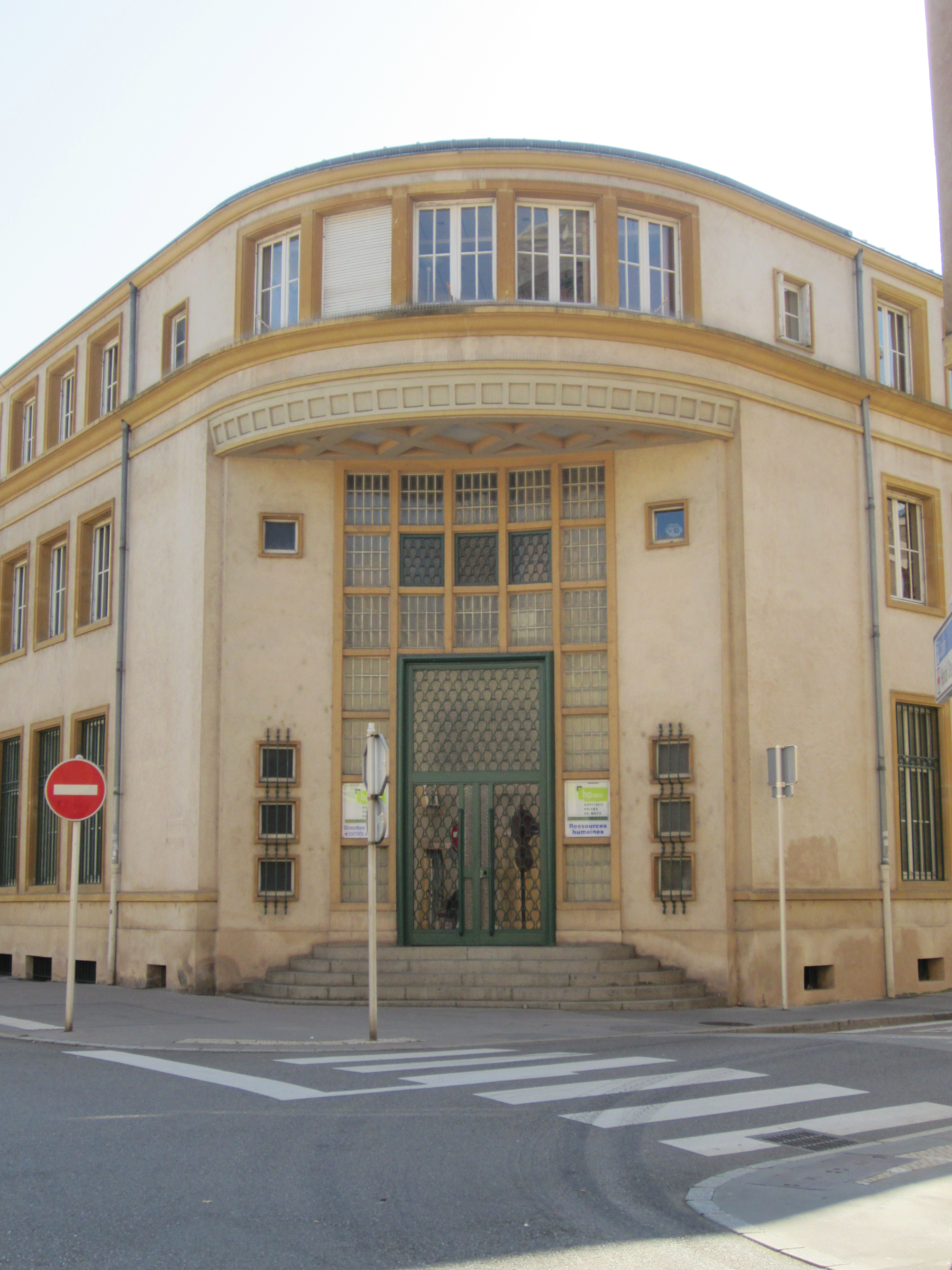 Description ancienne gendarmerie de Metz Date23 November 2011Sourcemon appareil photoAuthorAimelaimePermission (Reusing this file) ancienne gendarmerie de Metz